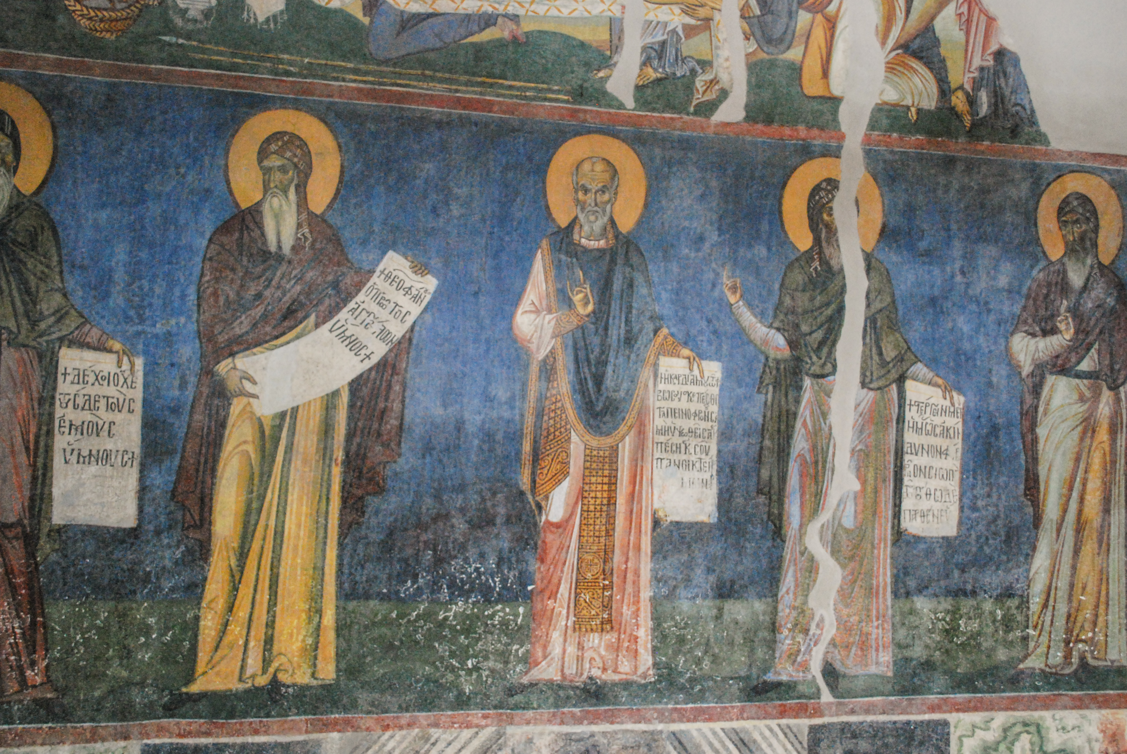 S Pantaleon Church in Gorno Nerezi Monastery, Macedonia